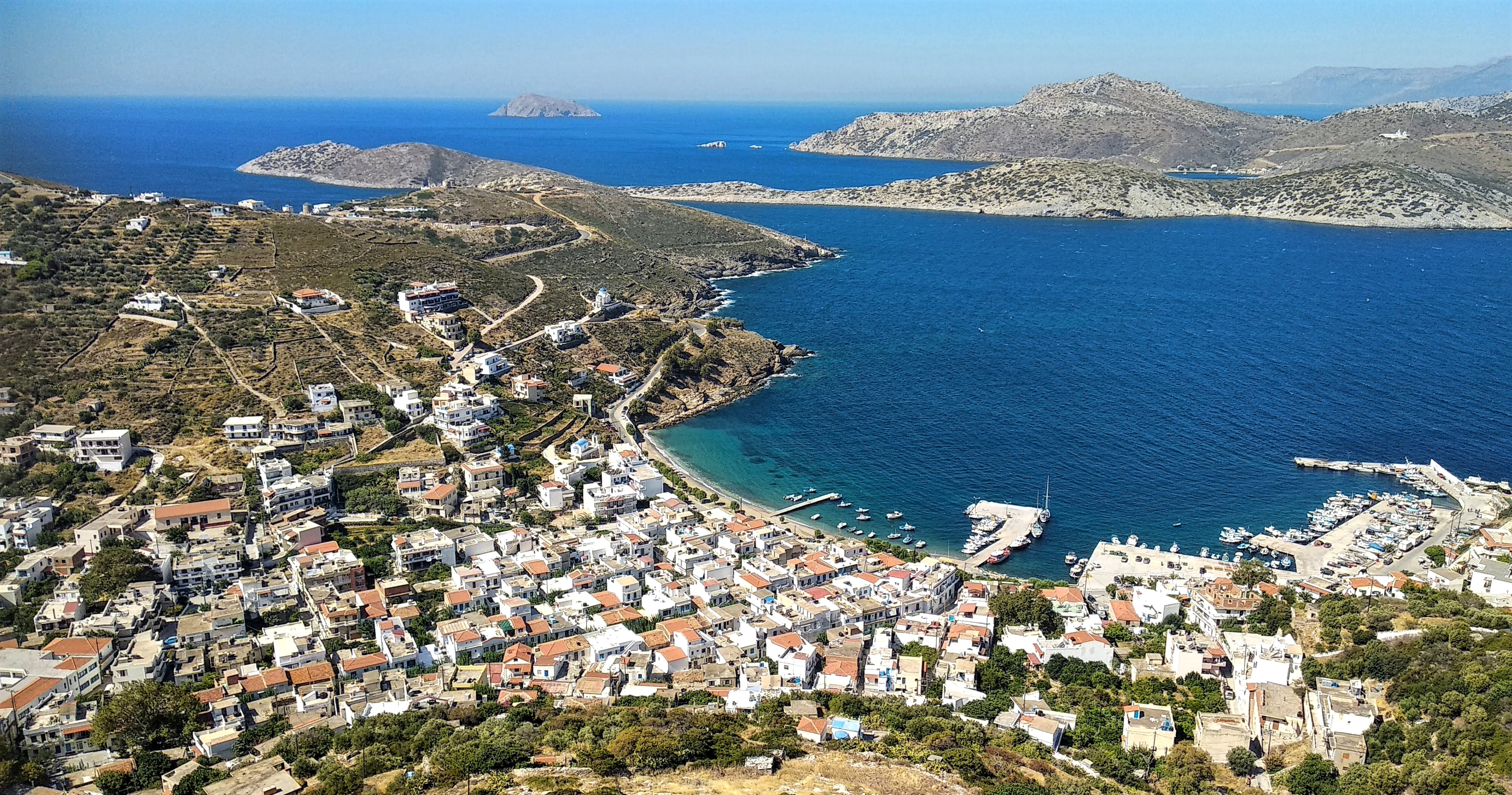 This is a photography of Natura 2000 protected area with ID GR4120006